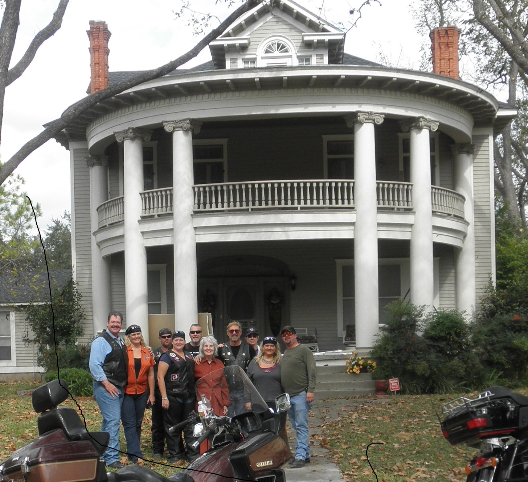 The McCollum-Chapman-Trousdale house at 201 NE Eighth St. in Smithville, TX where Hope Floats was filmed.